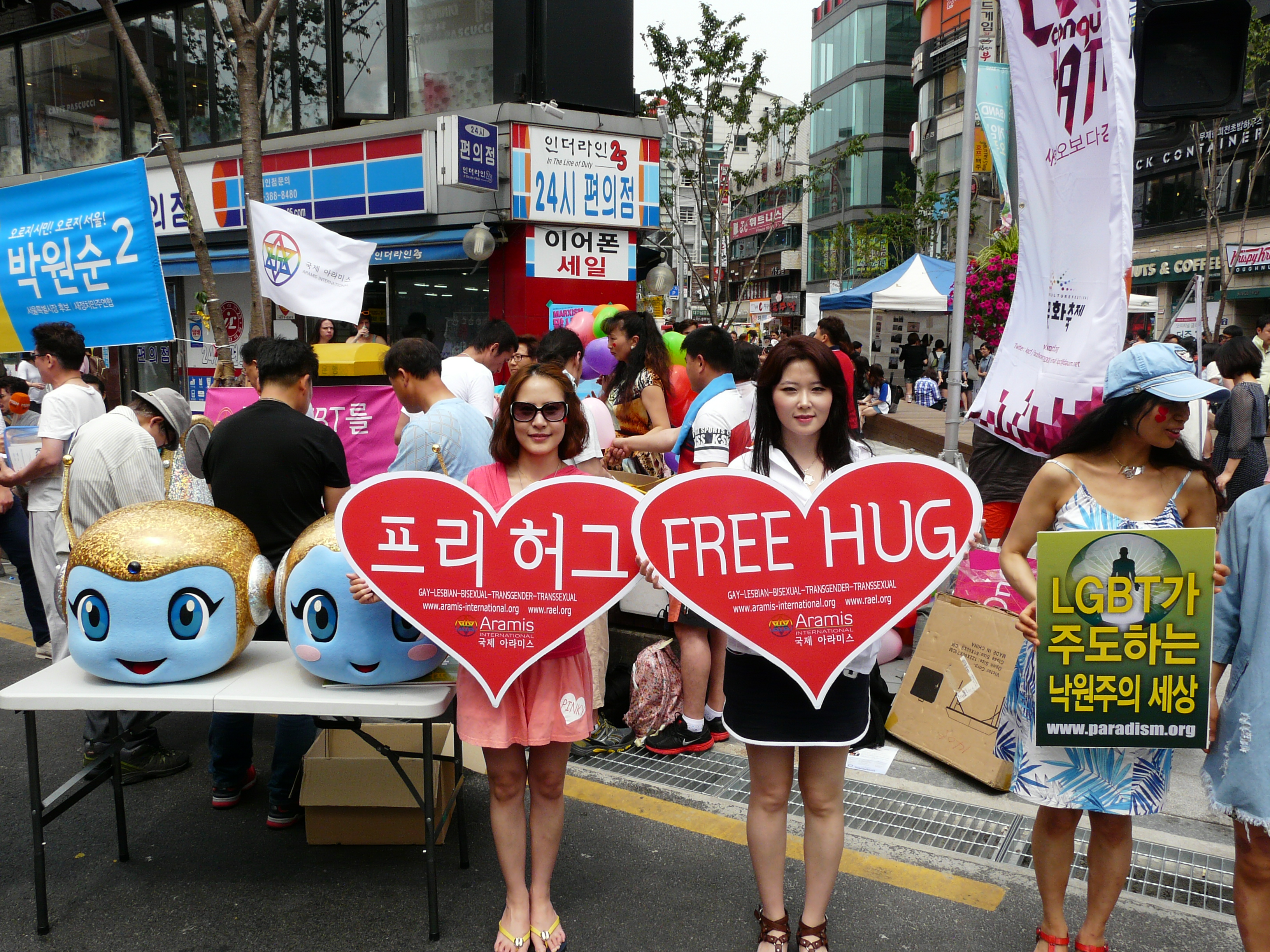 Korea Queer Culture Festival 2014, before the parade. Here: several participants at a small booth.